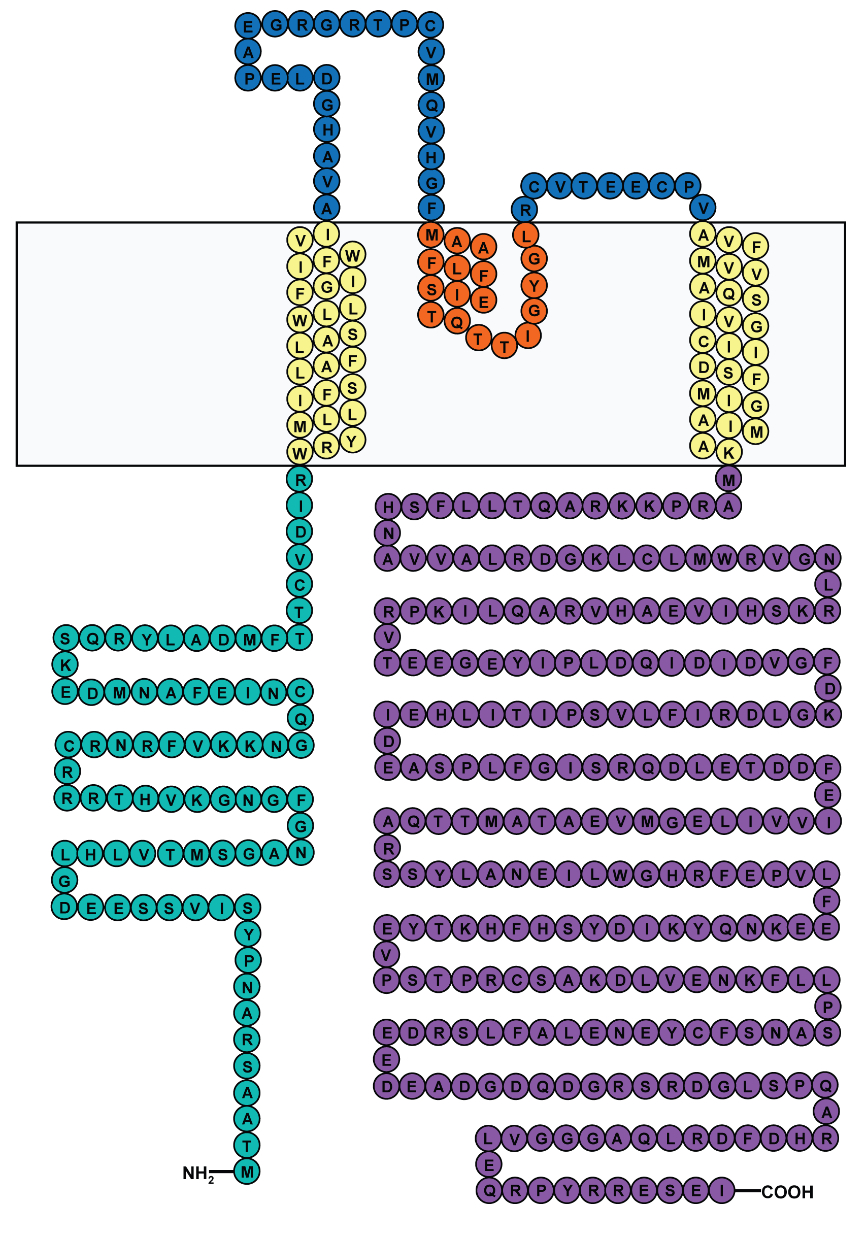 Snake diagram of human Kir2.2 amino acid sequence